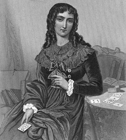 Portrait of Marie Anne Lenormand from The Court of Napoleon by Frank Boott Goodrich, described as follows in the book: "The portrait of M'lle Lenormand ... is taken from an engraving at the Bibliothèque Impèriale, in Paris, believed to be the only authentic likeness of her in existence."